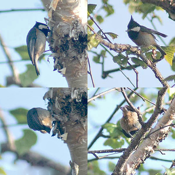 Rufous-vented Tit Parus rubidiventris in Kullu District of Himachal Pradesh, India.